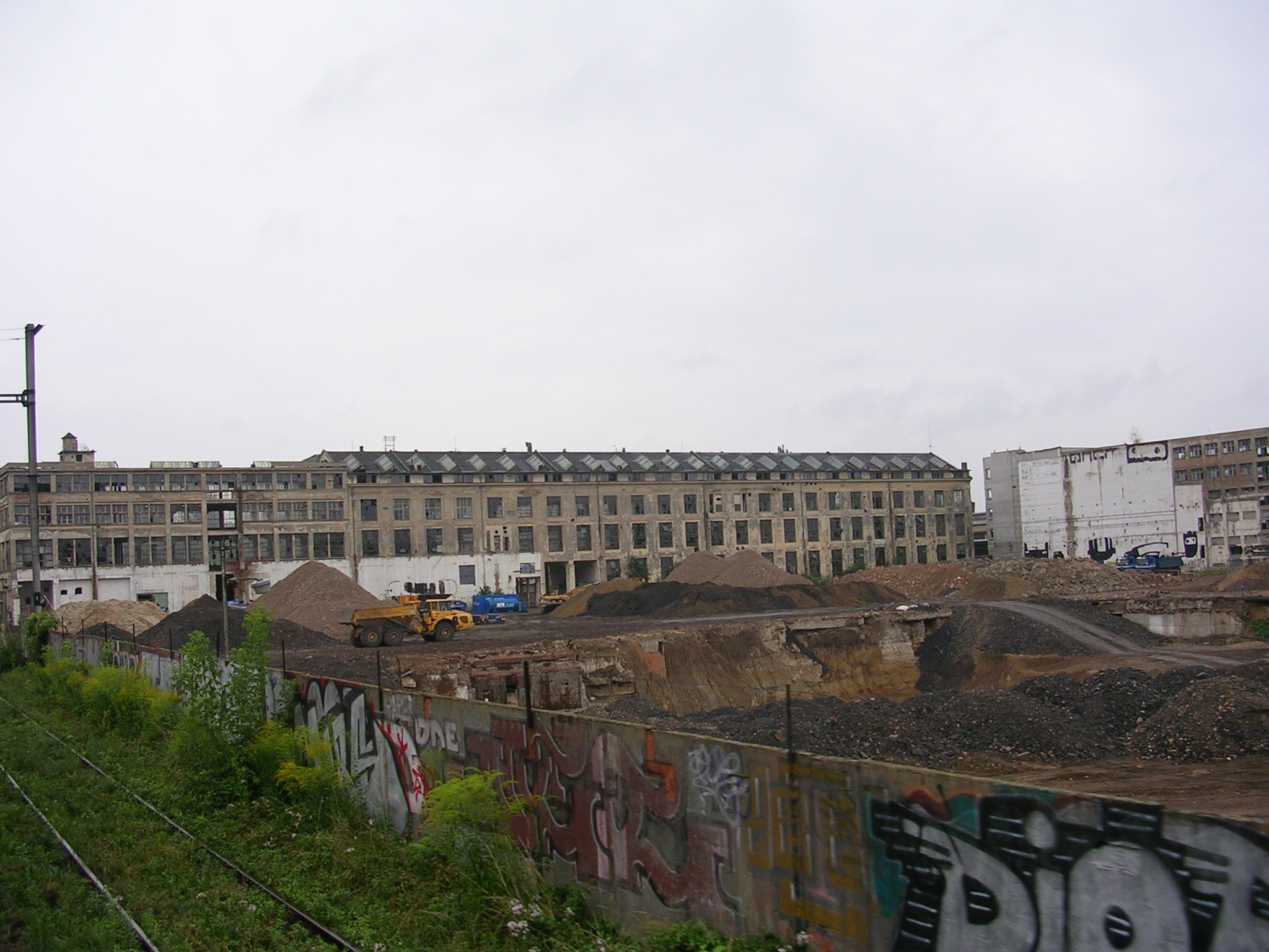 Prague-Vysočany, the Czech Republic.